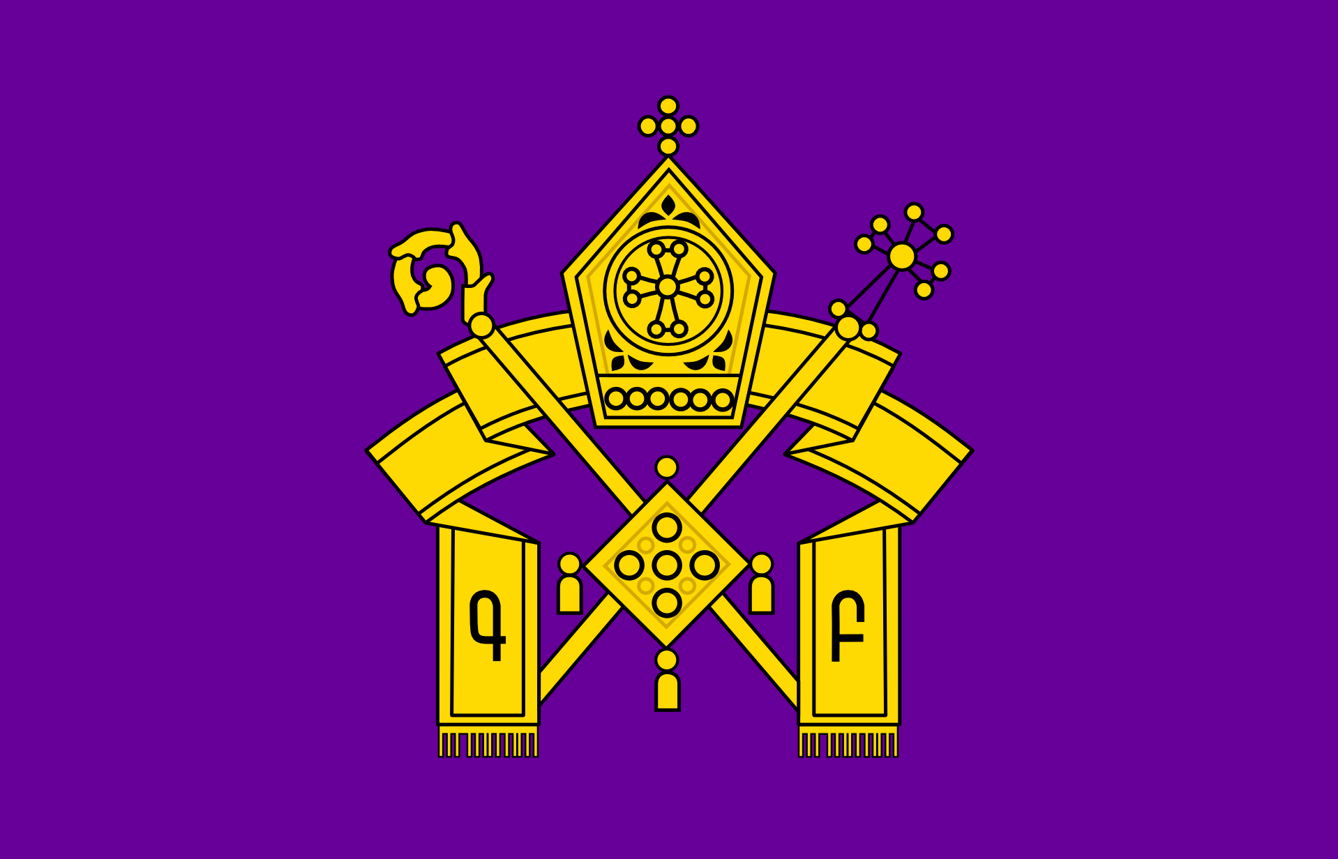 Logo of Armenian Apostolic Church